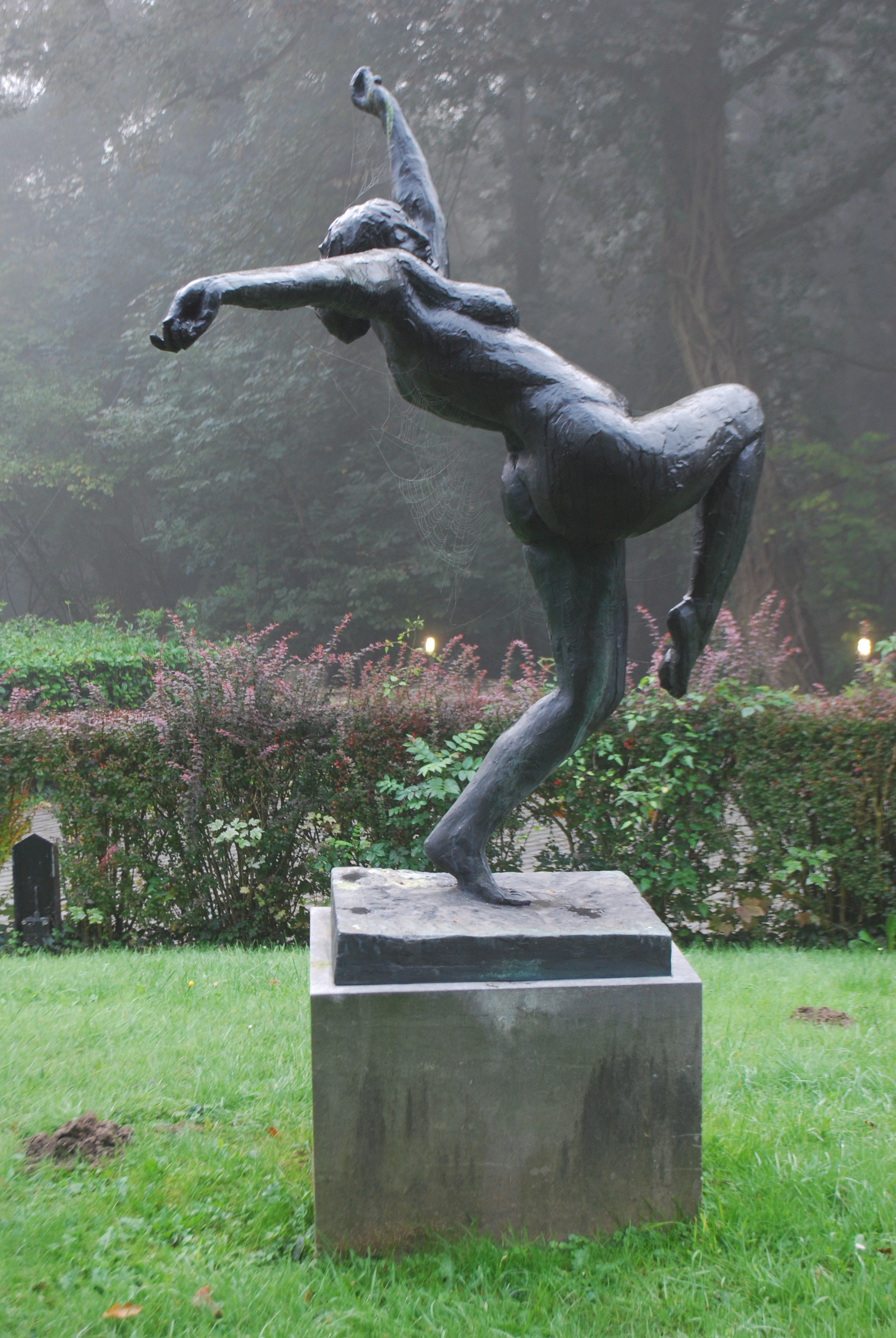 Rik Wouters, "The Mad Virgin", 1912, The Sart-Tilman Open-air Museum, Colonster Castle, University of Liège, Belgium.